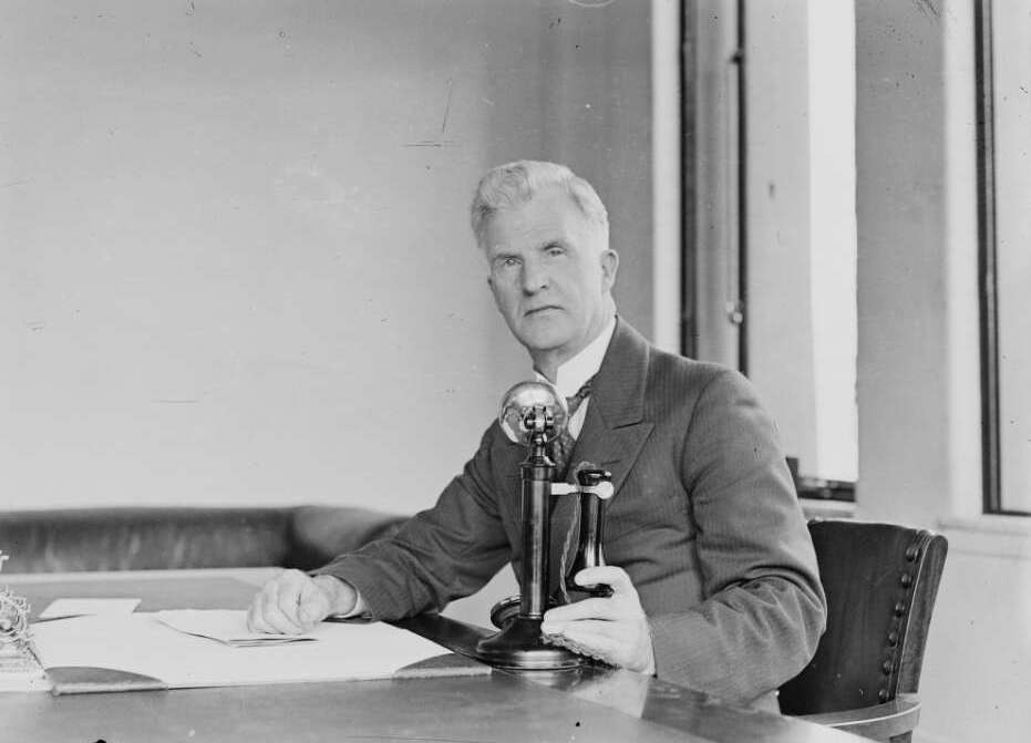 James Scullin at his desk.